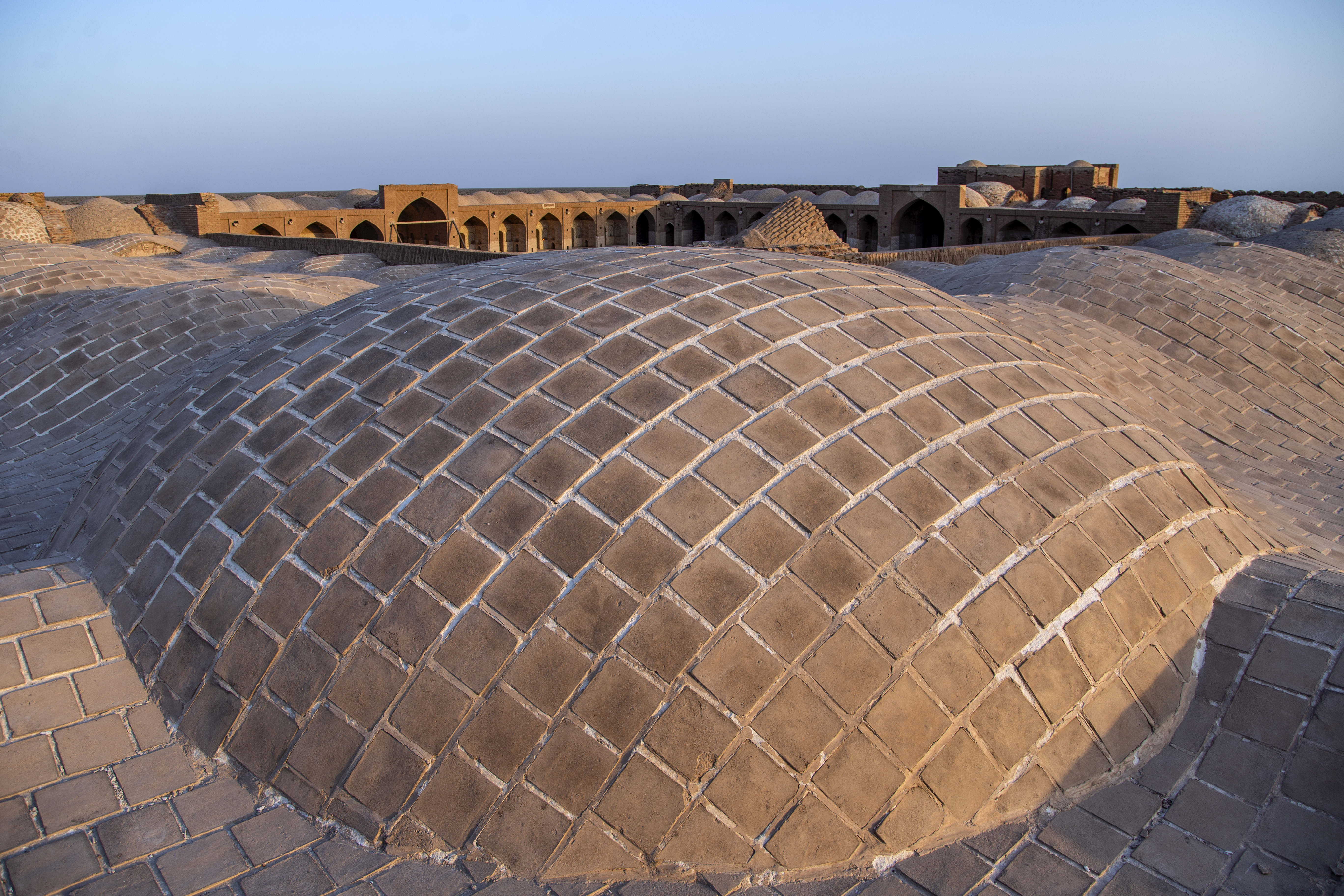 Deir-e Gachin Caravansarai is one of the greatest caravansarais of Iran which is located in the center of Kavir National Park. Its unique qualities is the reason it is called “Mother of Iranian Caravansarais”. It is located in the Central District of Qom County, 80 kilometers north-east of Qom (60 kilometers into Garmsar Freeway) and 35 kilometers south-west of Varamin. (Photo by: Mostafa Meraji, wiki loves monuments 2018)